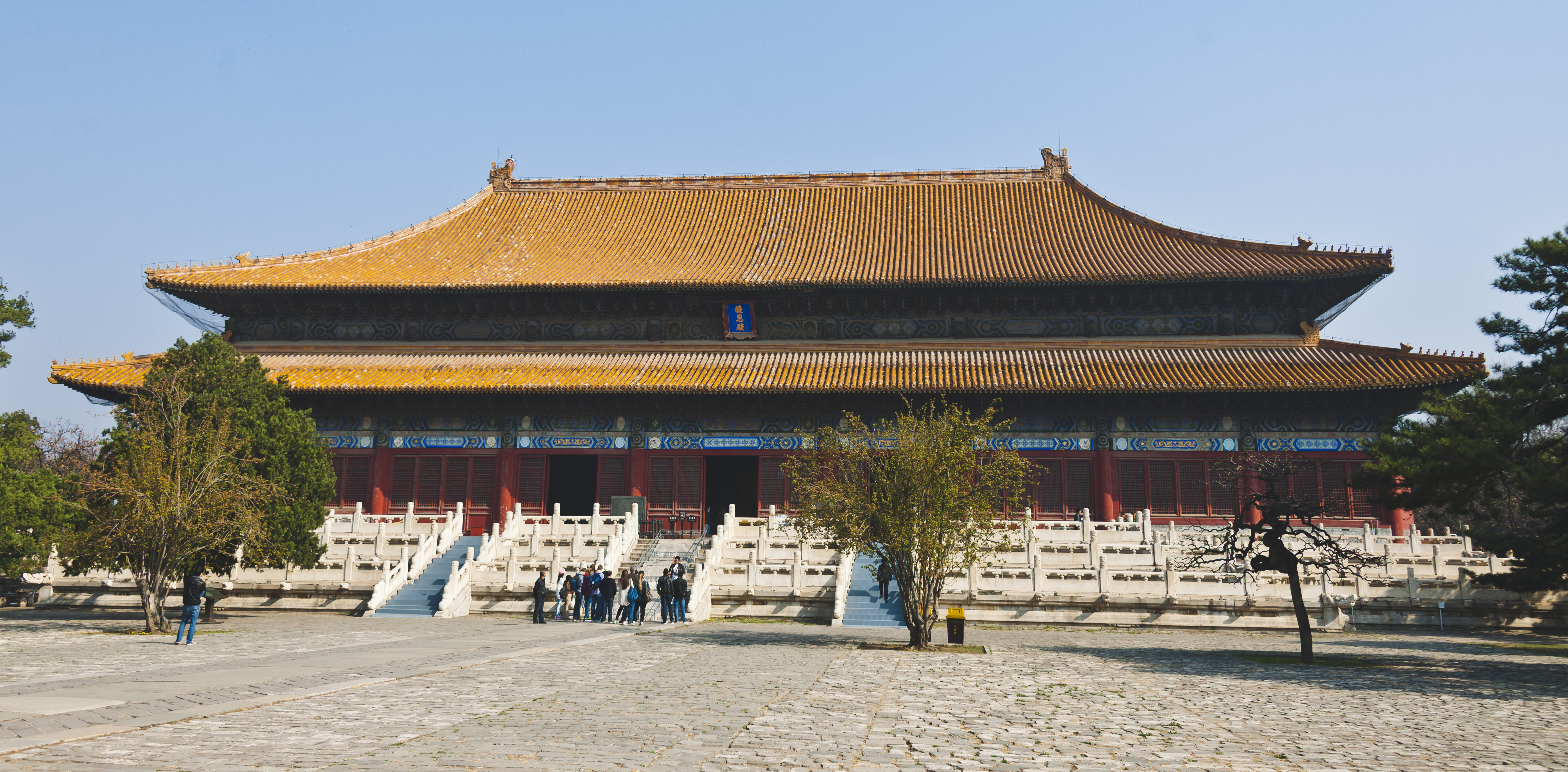 Lingen Gate at Changling tomb, Beijing